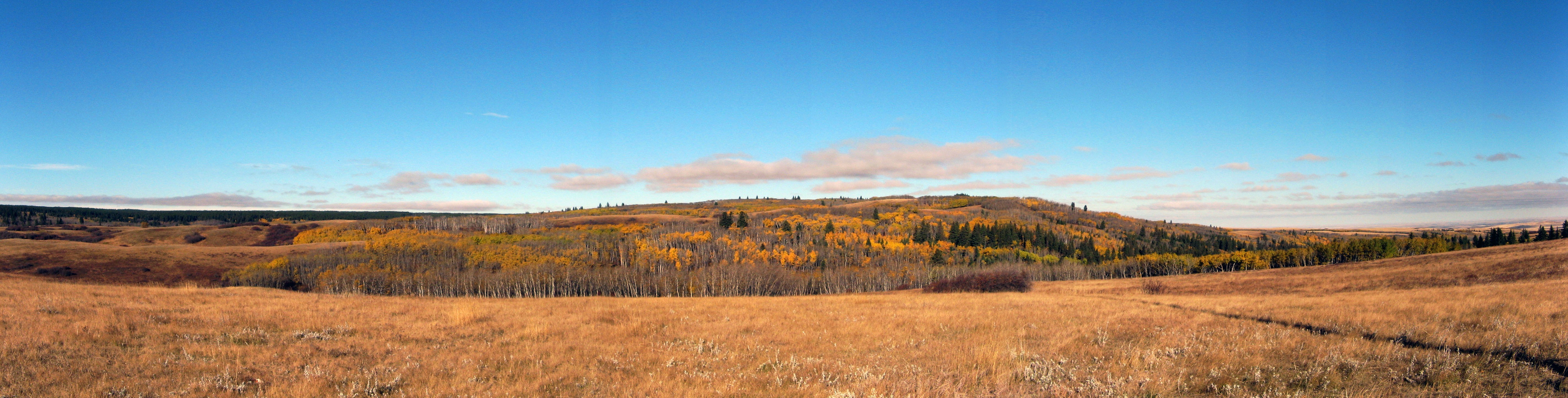 Erik Lizee